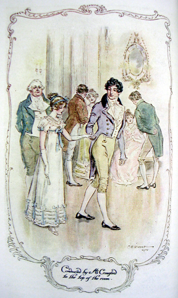 Illustration for ch.28 of Mansfield Park, in the Series of English Idylls, published by J.M Dent & Co. (London) and E.P. Dutton & Co. (New York). Conducted by Mr. Crawford to the top of the room.